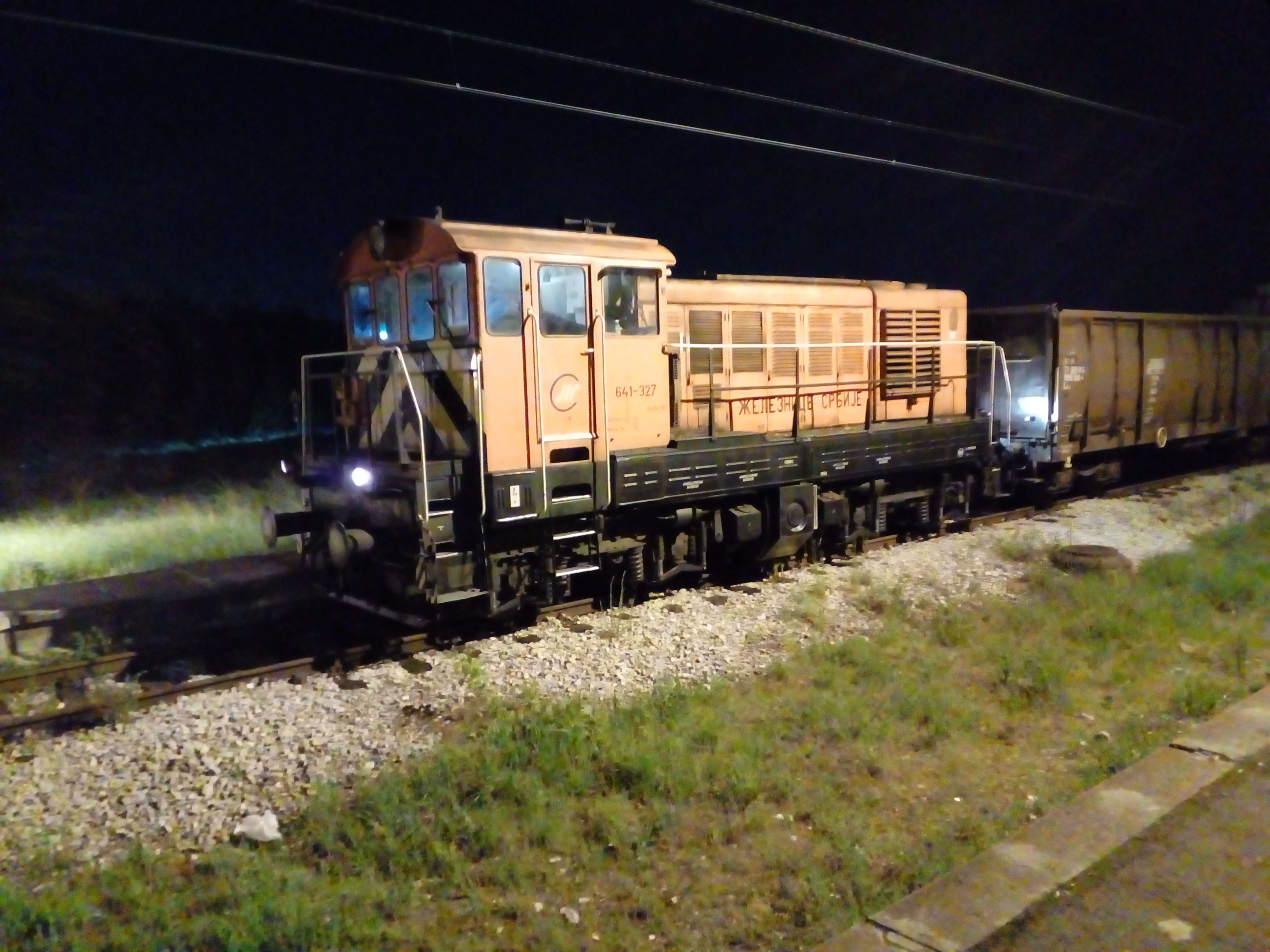 641 327 at Zemun railway station